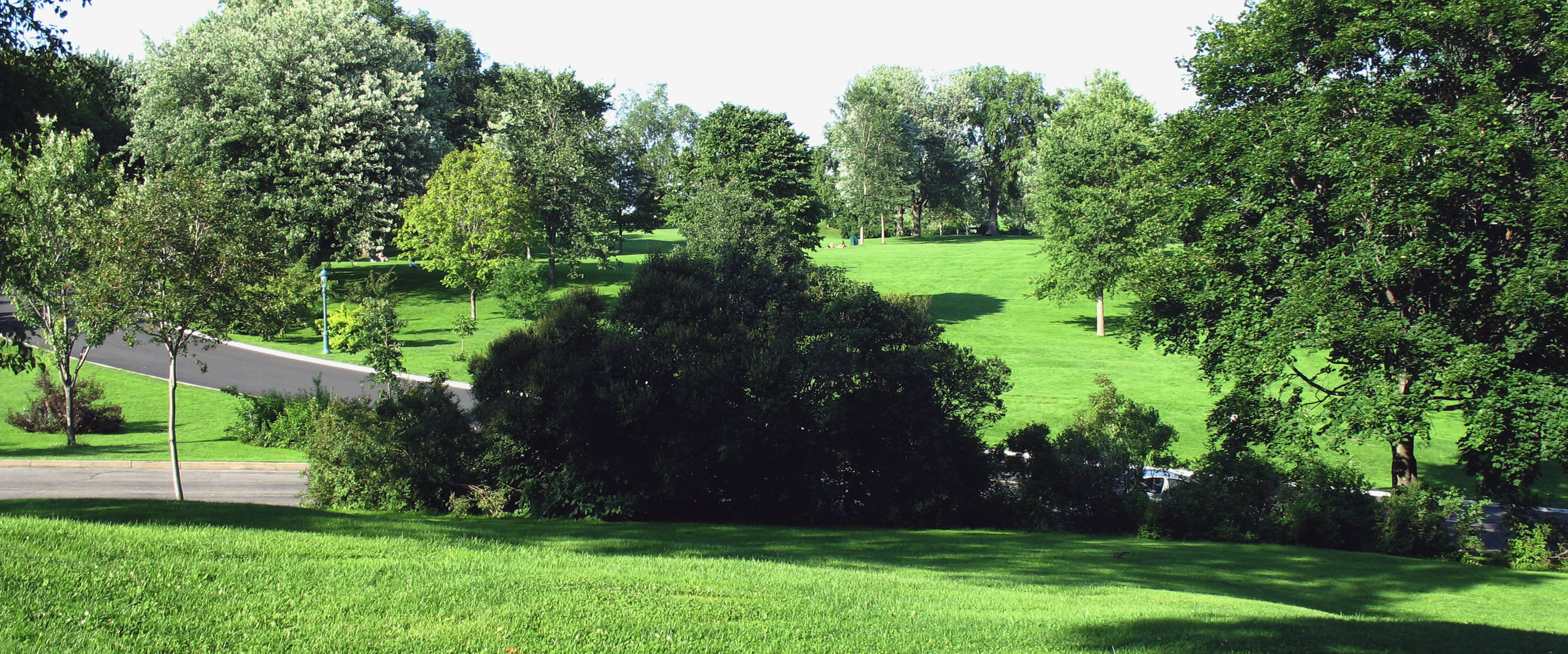 The Plains of Abraham, Battlefield Park, Quebec City, Canada